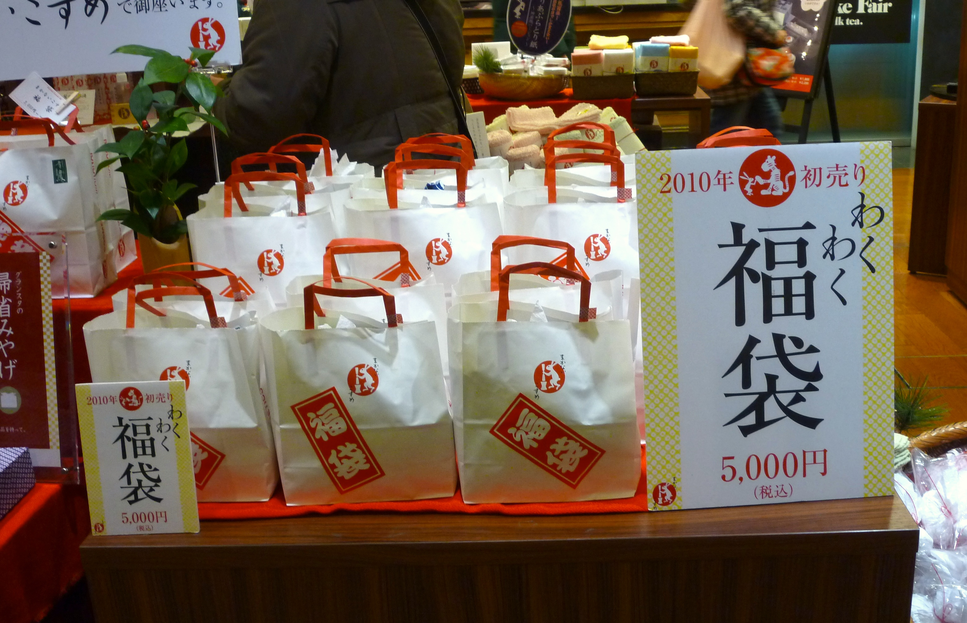 5000 yen fukubukuro for the year 2010